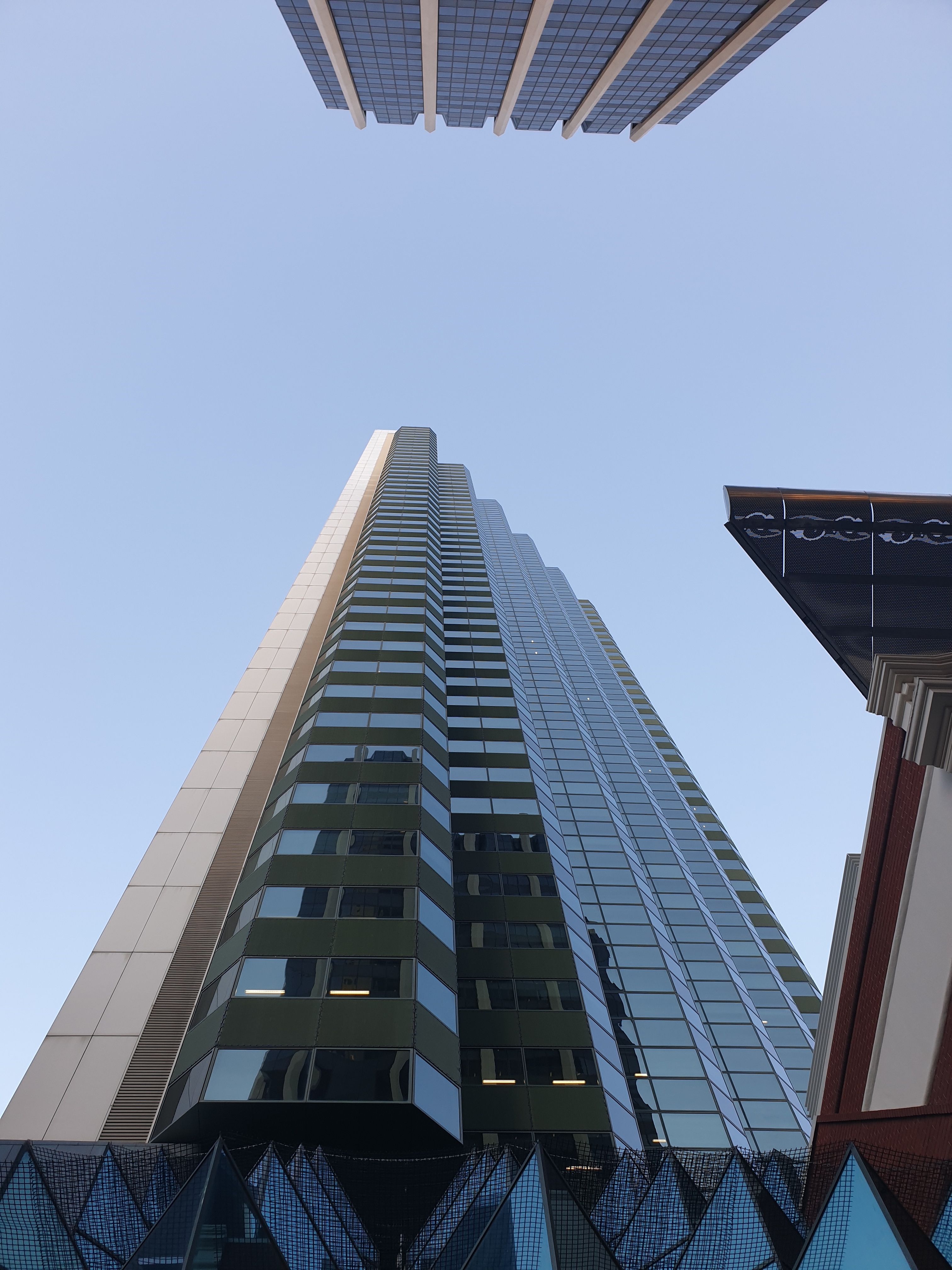 Bankwest Tower and the AML building